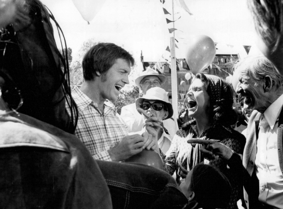 Photo from the television program Apple's Way. Pictured laughing from left: Ronny Cox (George Apple), Lee McCain (Barbara Apple) and Malcom Atterbury (Grandfather Aldon Apple).